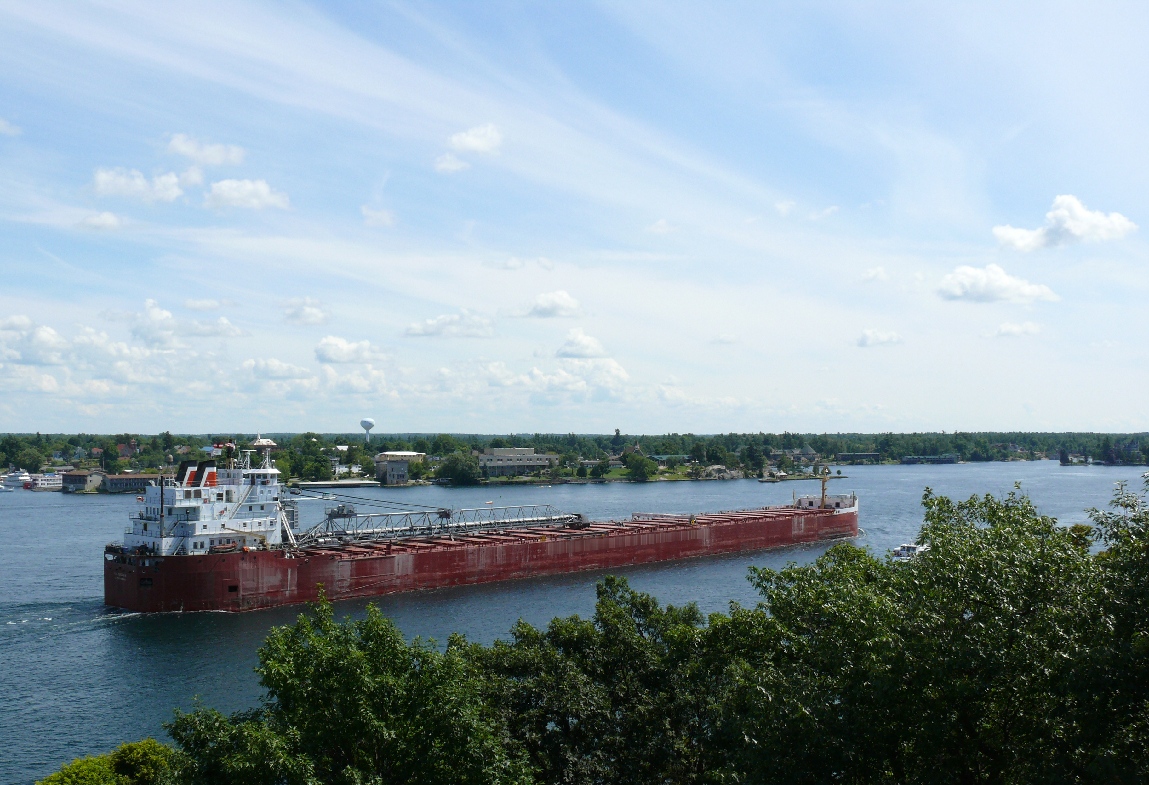 Lake freighter CSL Niagara on the St. Lawrence River near Alexandria Bay in the Thousand Islands.